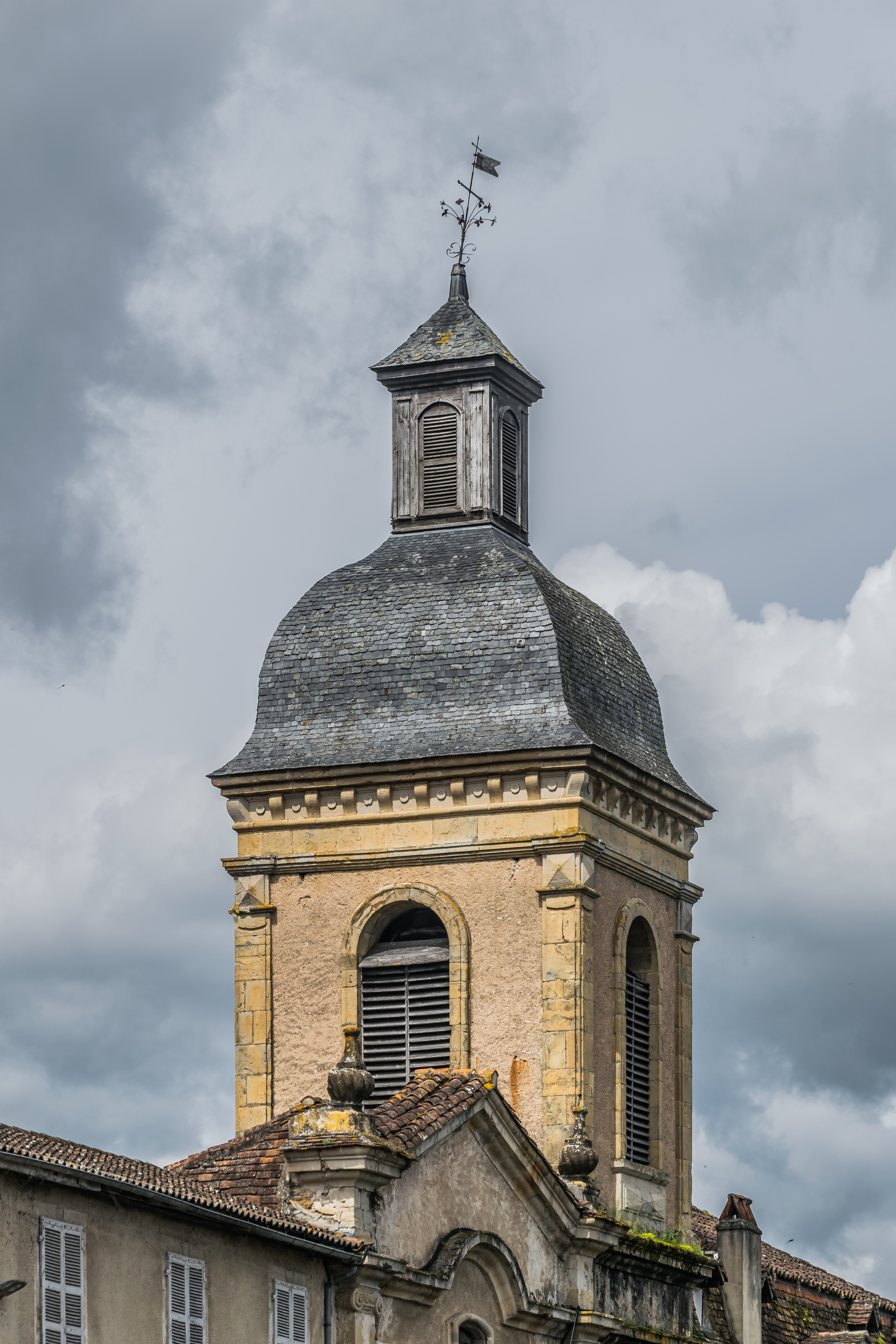 Bell tower of the Recollects Church of Saint-Céré, Lot, France .